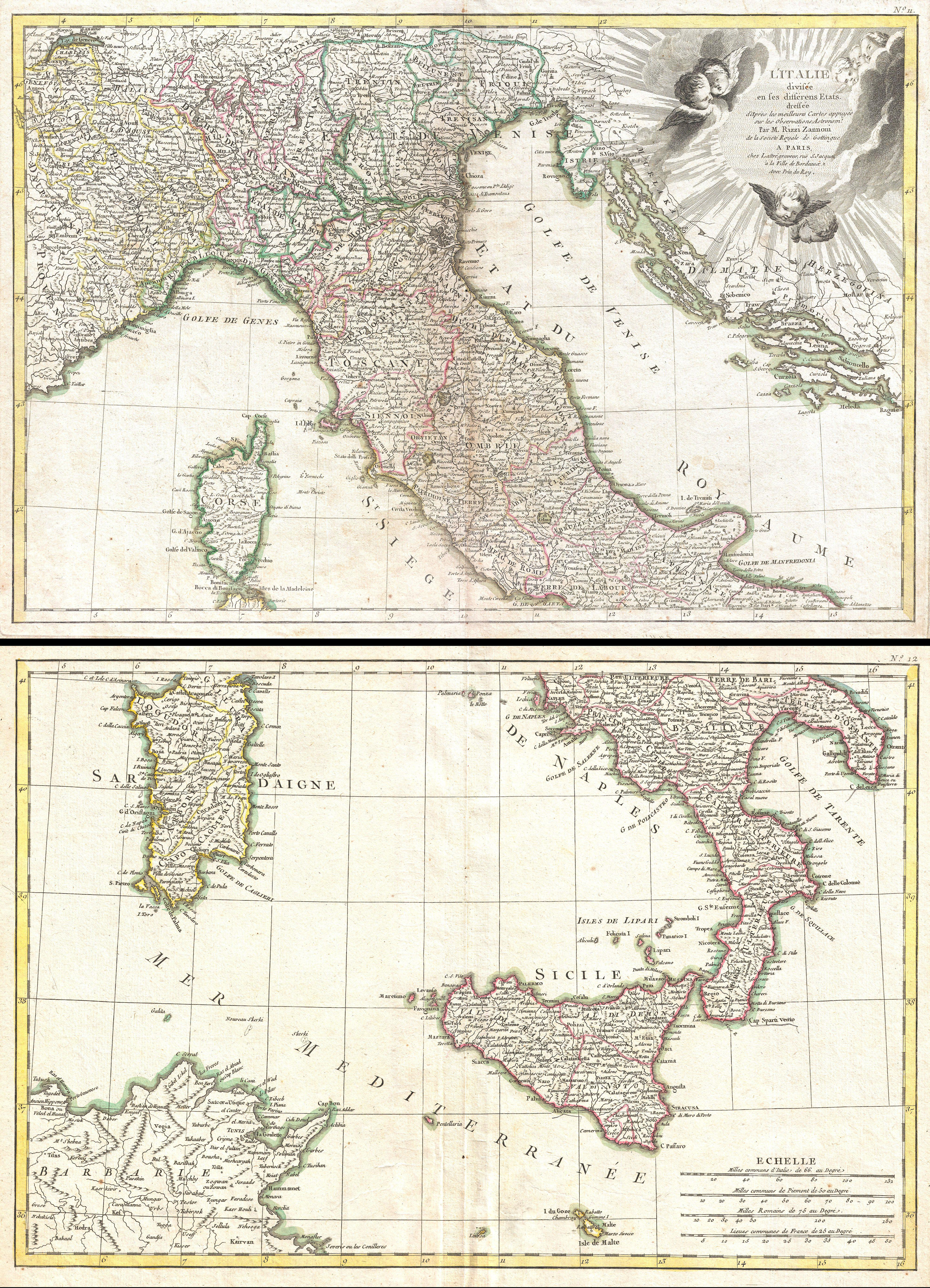 A beautiful example of Rizzi-Zannoni's 1770 two sheet decorative map of Italy. The upper sheet covers from Lake Geneva and the Venetian States south to include Rome, Corsica, and Capitana. Also includes the Gulf of Venice and the states of Dalmatia, Herzegovina and Murlaka. A large decorative cartouche featuring solar rays and numerous putti (little cherubs) appears in the upper right quadrant. The lower sheet covers from Naples south to include Sicily, Malta, Sardinia and parts of Tunisia and Algeria in north Africa. This map shows the Italian peninsula prior to its struggle for national solidarity which would emerge as a movement about 50 years later in the early 19th century. The peninsula is divided into numerous independent states, duchies, republics, kingdoms and, of course, the Papal States (States of the Church). Overall, a fine map of the region. Drawn by Rizzi-Zannoni in 1770 for issue as plate nos. 11-12 in Jean Lattre's 1776 issue of the Atlas Moderne .